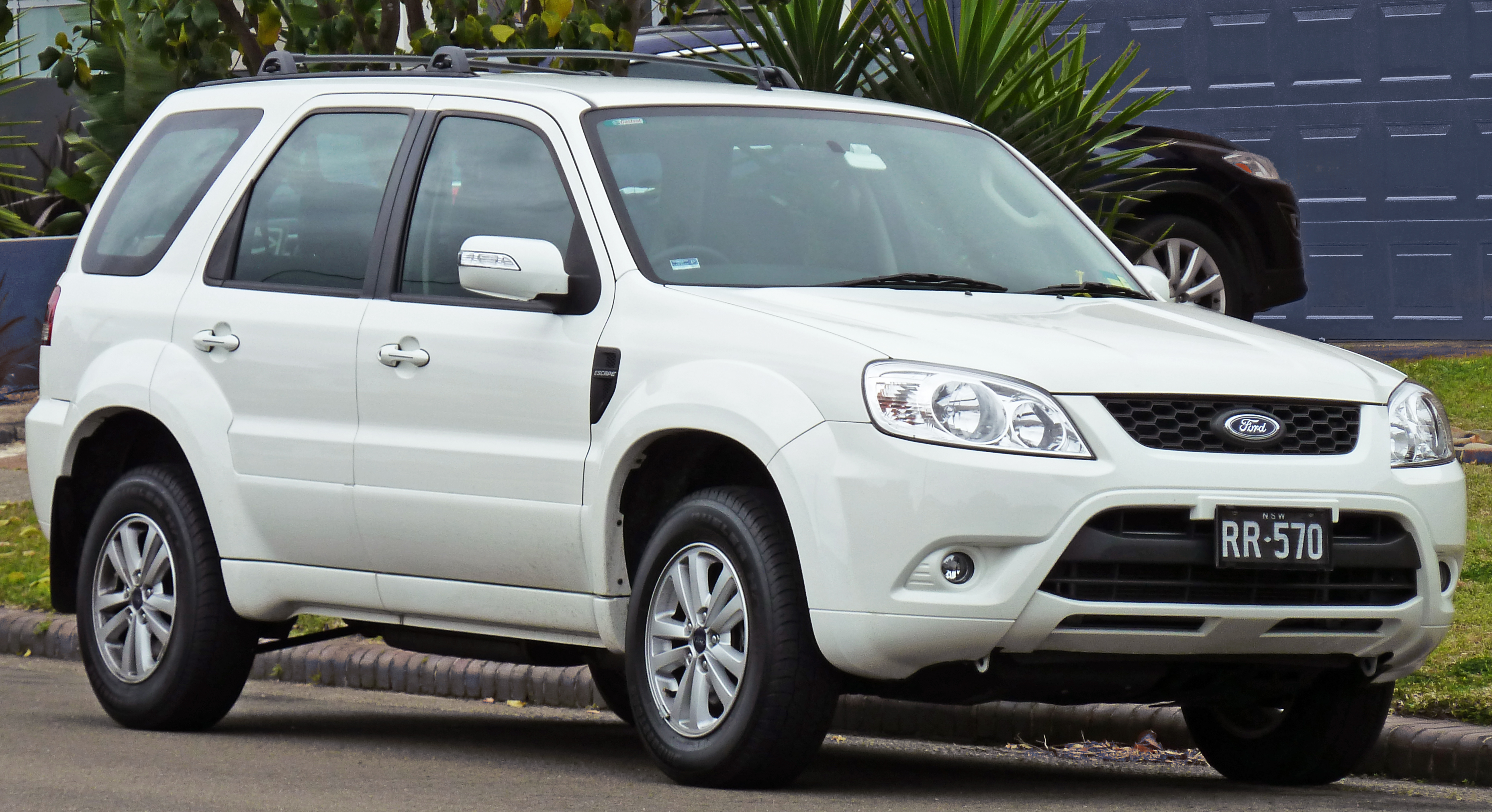 2009 Ford Escape (ZD) wagon. Photographed in Sandringham, New South Wales, Australia.